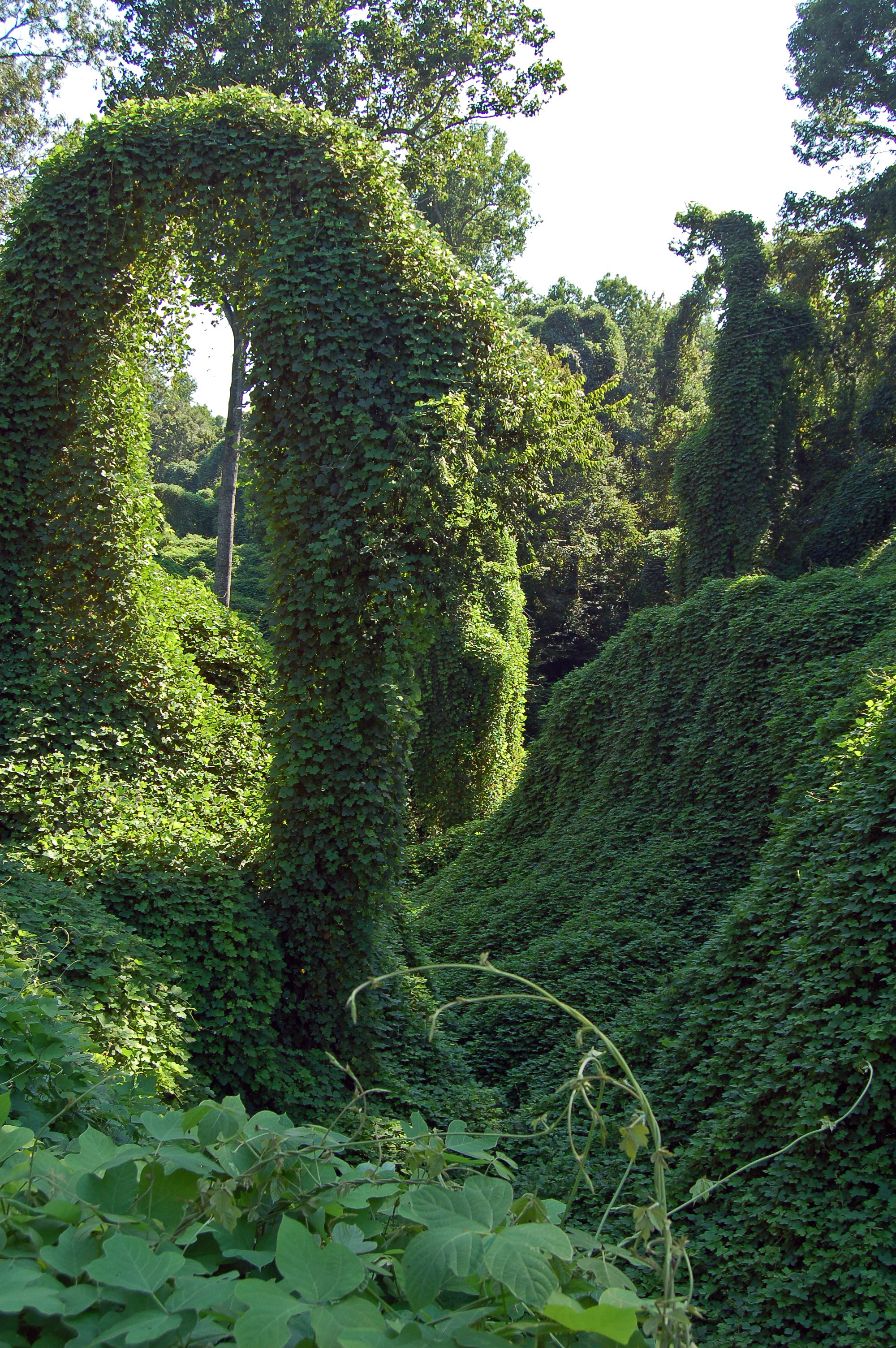 Kudzu covered field near Port Gibson, Mississippi, USA